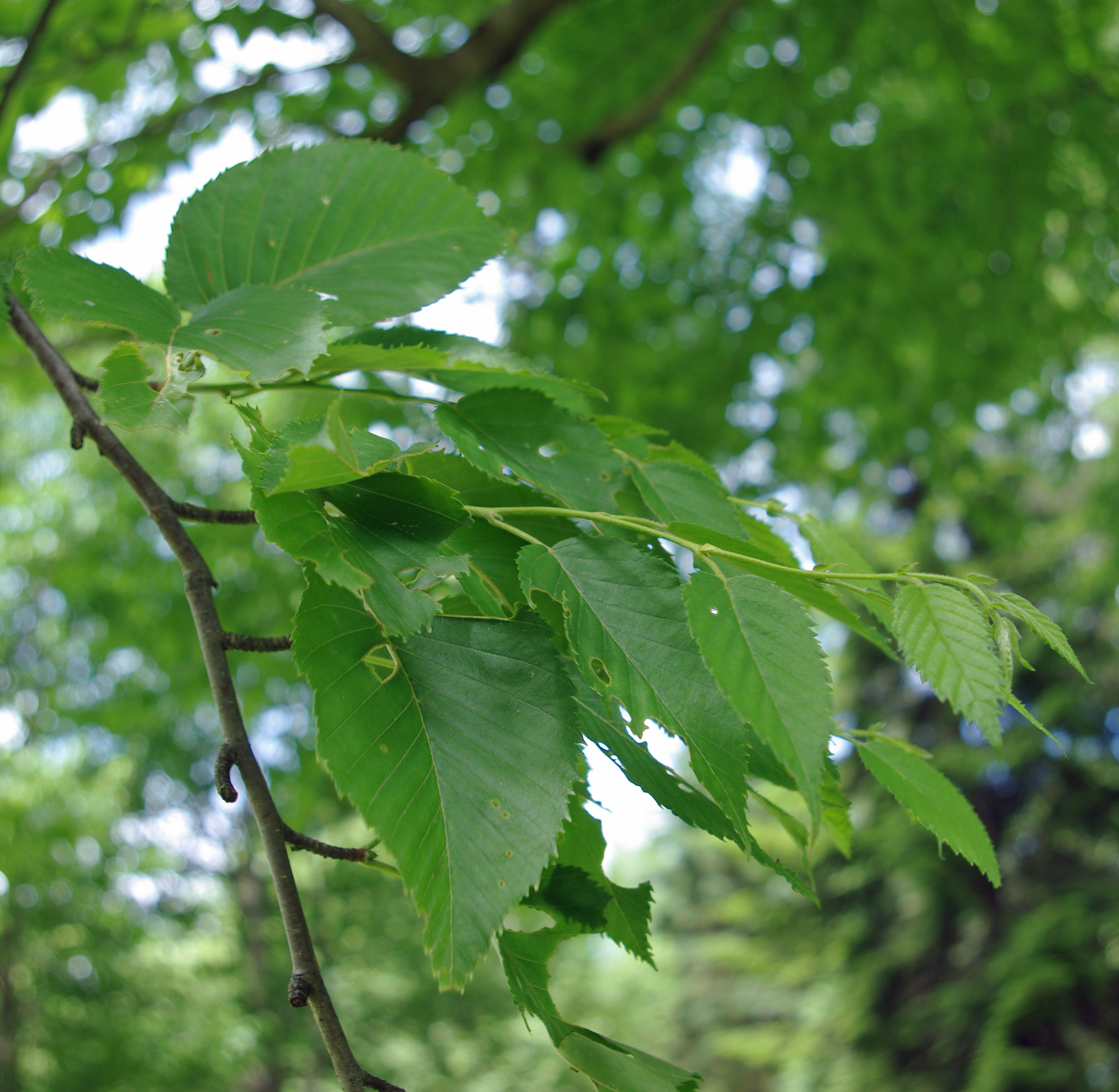 Foliage of Betula grossa, Arnold Arboretum, Boston, Massachusetts